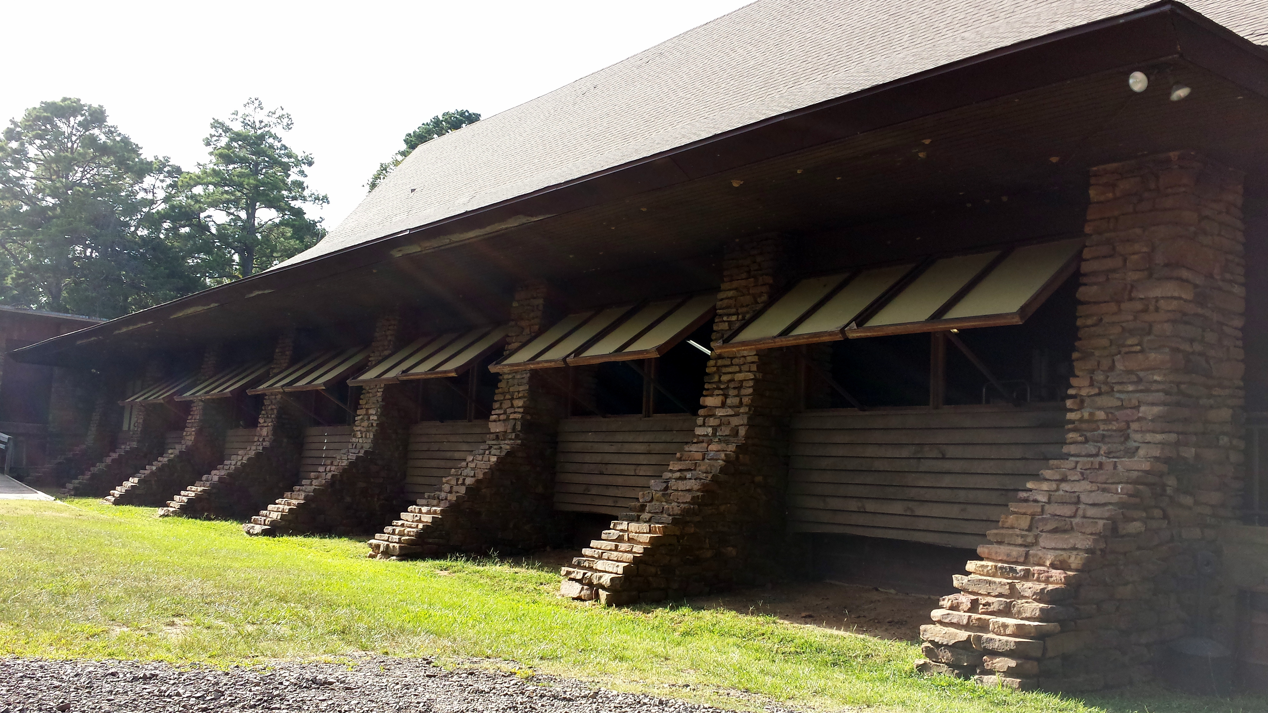 CCC Assembly hall at Petit Jean State Park — in Conway County, Arkansas. 1935 Rustic Style building by the CCC−Civilian Conservation Corps. On the National Register of Historic Places in Conway County.